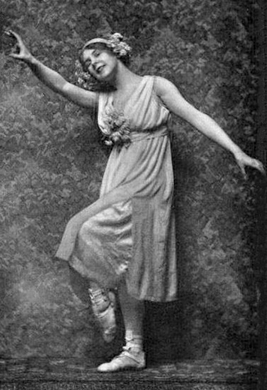 Dancer Lydia Lopokova